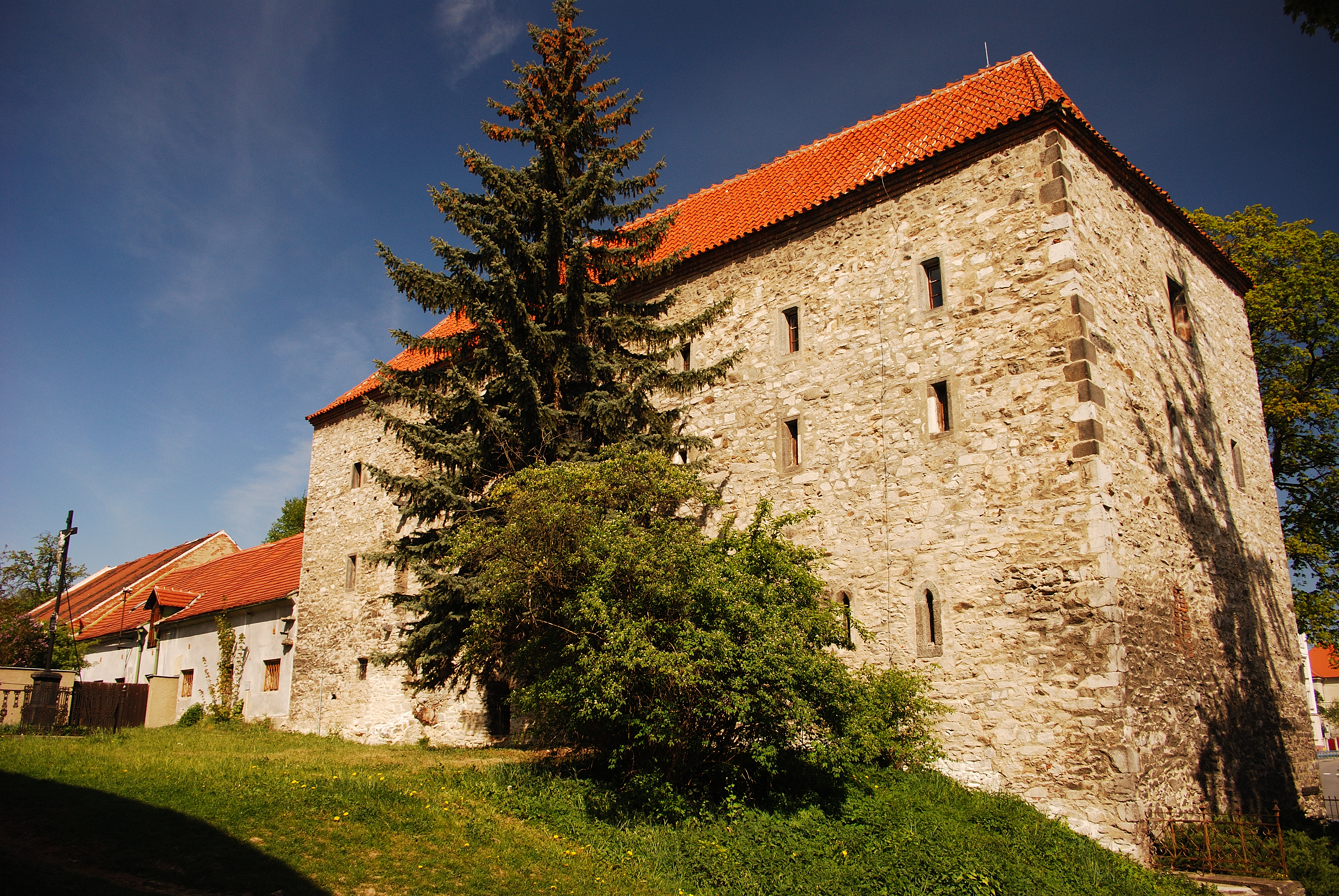 Fortress in town of Volyne, Czech republic